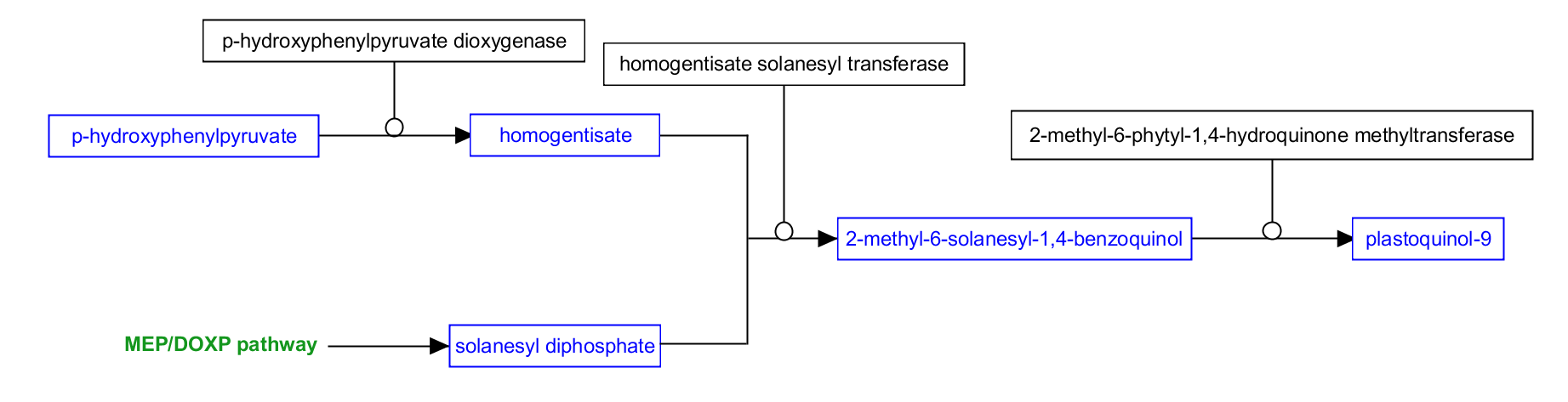 Biosynthesis pathway of PQ-9 with intermediates in blue and enzymes in black. Synthesis of the side chain is created through the MEP/DOXP pathway.